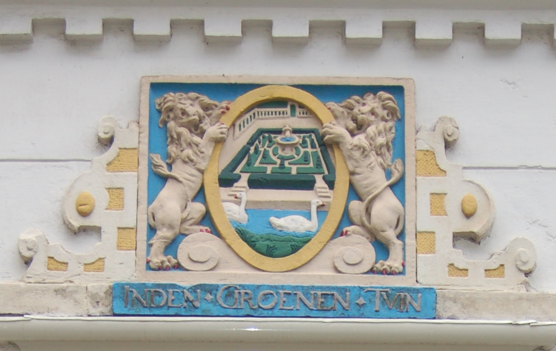 Gable stone of Haarlem "Hofje In den Groenen Tuin" above the rear entrance on the Lange Veerstraat, Haarlem, The Netherlands. Shows oval representation of small green garden with two swans in a pond. The oval is held by two lions on either side.